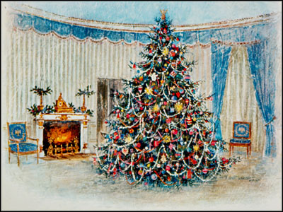 The 1967 White House Christmas Card limited edition gift print distribued by President Lyndon Johnson and First Lady, Lady Bird Johnson, to White House staff members and VIP's for Christmas 1964. Just 3000 of these prints were printed and distributed by the White House.